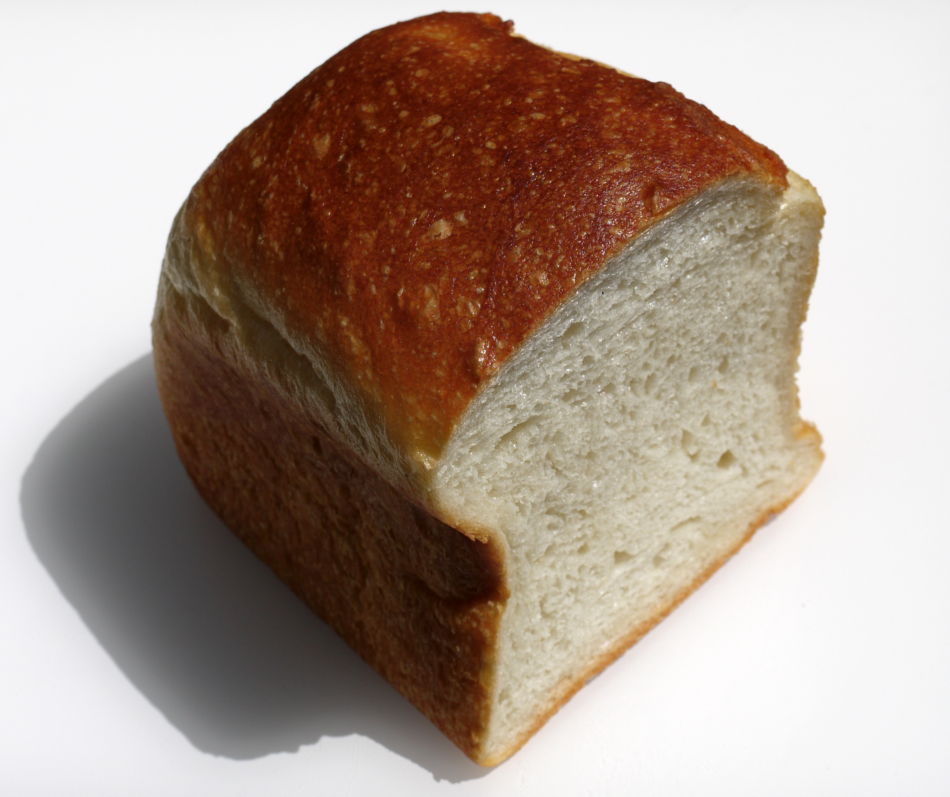 Japanese rice bread, roundtop variety